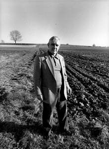 Albert-Louis Chappuis